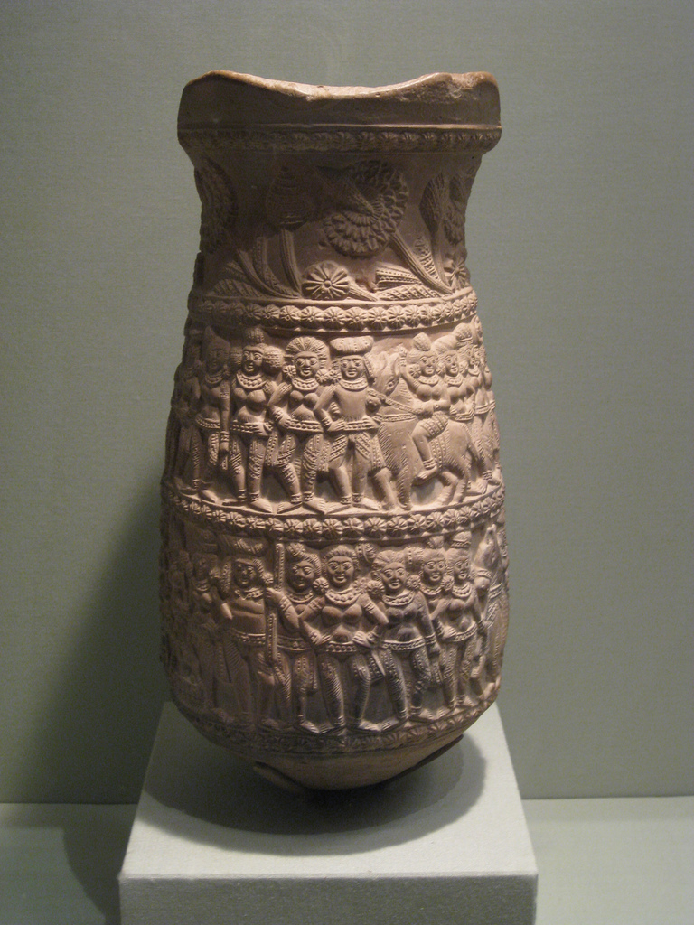 India, West Bengal, Chandraketugarh region, South Asia Vase with Processional Scenes, circa 100 B.C. Decorative object; Ceramic, Buff colored, low-fired ceramic, Height: 10 1/4 in. (26.04 cm); Diameter: 5 1/4 in. (13.34 cm) Gift of John and Fausta Eskenazi in honor of the museum’s 40th anniversary (M.2005.155) Wikipedia Loves Art at the Los Angeles County Museum of Art This photo of item # M.2005.155 at the Los Angeles County Museum of Art was contributed under the team name "artifacts" as part of the Wikipedia Loves Art project in February 2009. Los Angeles County Museum of Art The original photograph on Flickr was taken by Hartmannia—please add a comment to the original Flickr page whenever a use has been made on Wikipedia or another project. Project galleries on Flickr: this institution, this team